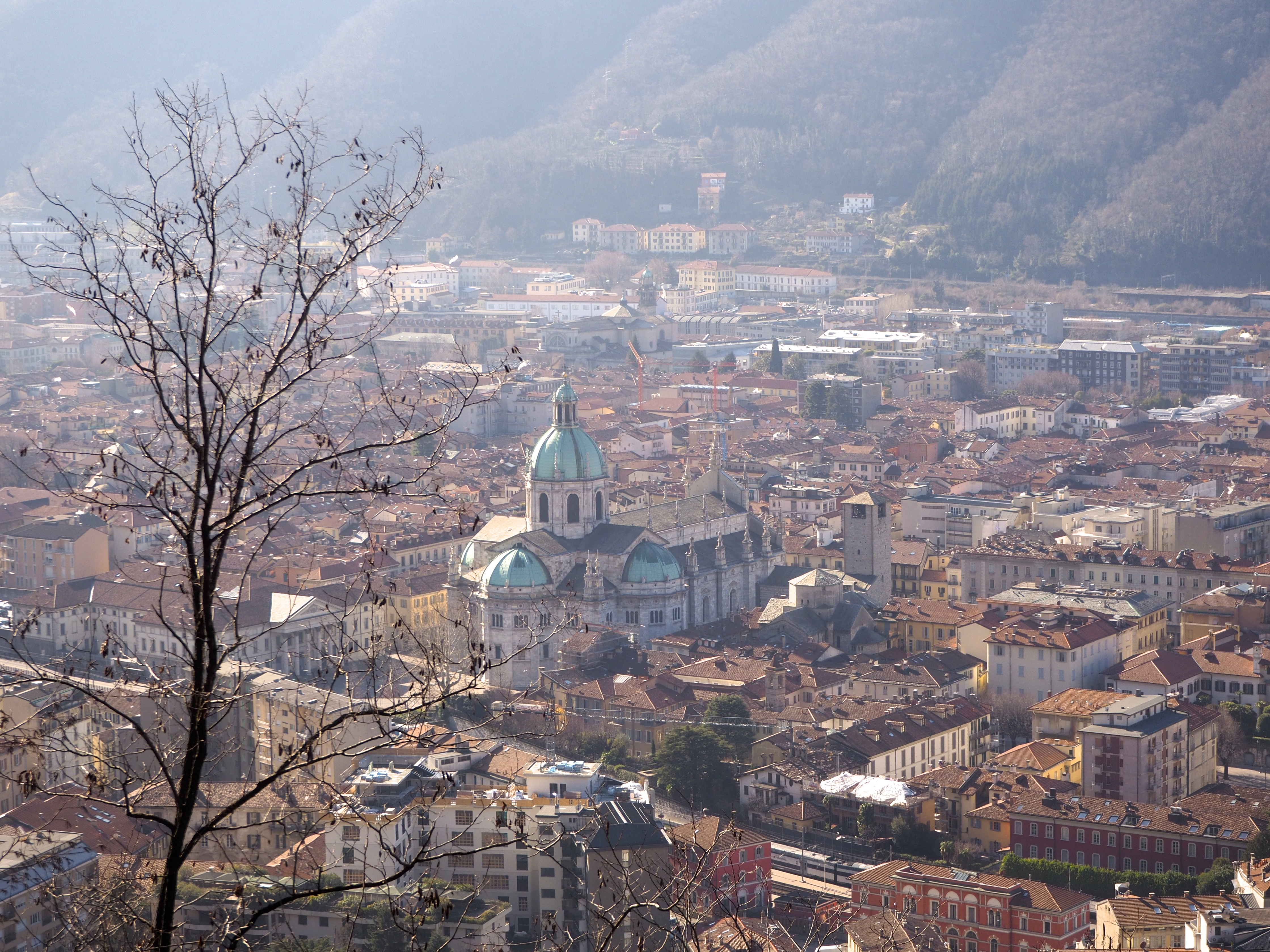 Como cathedral, view from the funicular This is a photo of a monument which is part of cultural heritage of Italy.